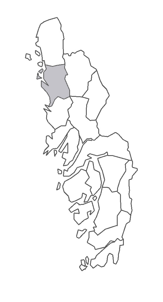 Map describing the location of Tanum Hundred in Bohuslän Province, Sweden.